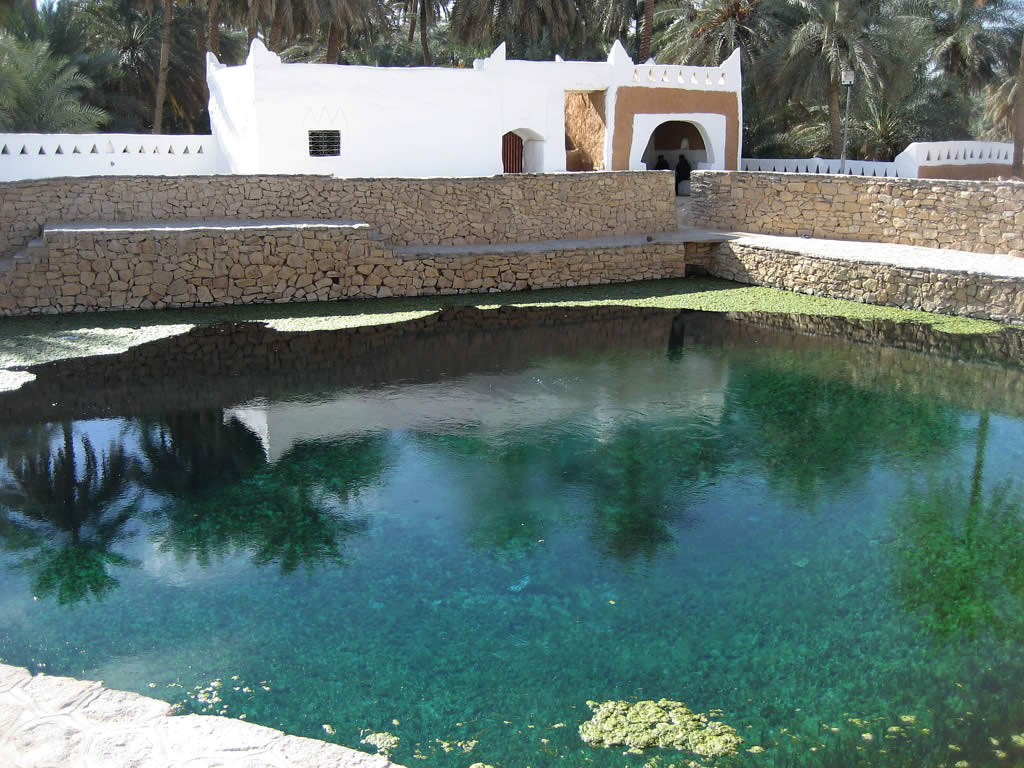 A spring-fed pool at Ghadames.